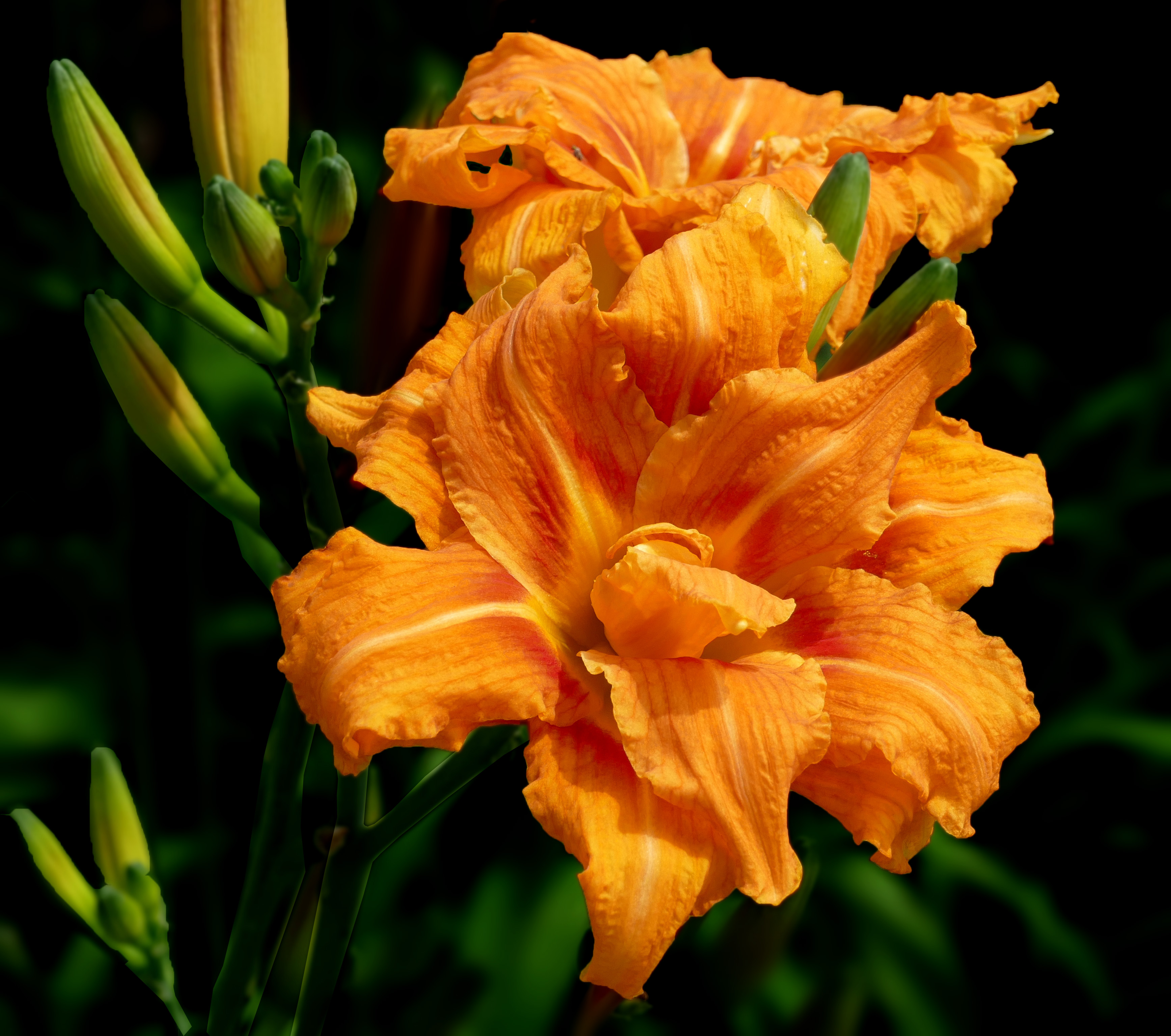 Double daylily -- Hemerocallis fulva Flore Pleno' aka 'Kwanso'